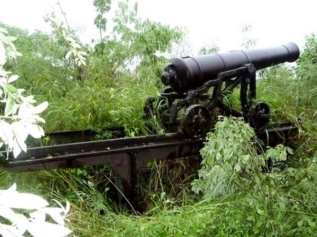 This is a photo of a cannon located at Fort Haldane, Jamaica. I took this picture myself, using my own camera.